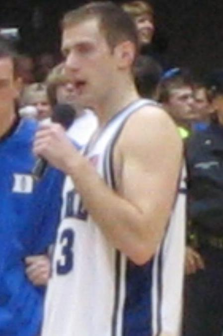 Lee Melchionni speaking to the crowd after his last game in Cameron